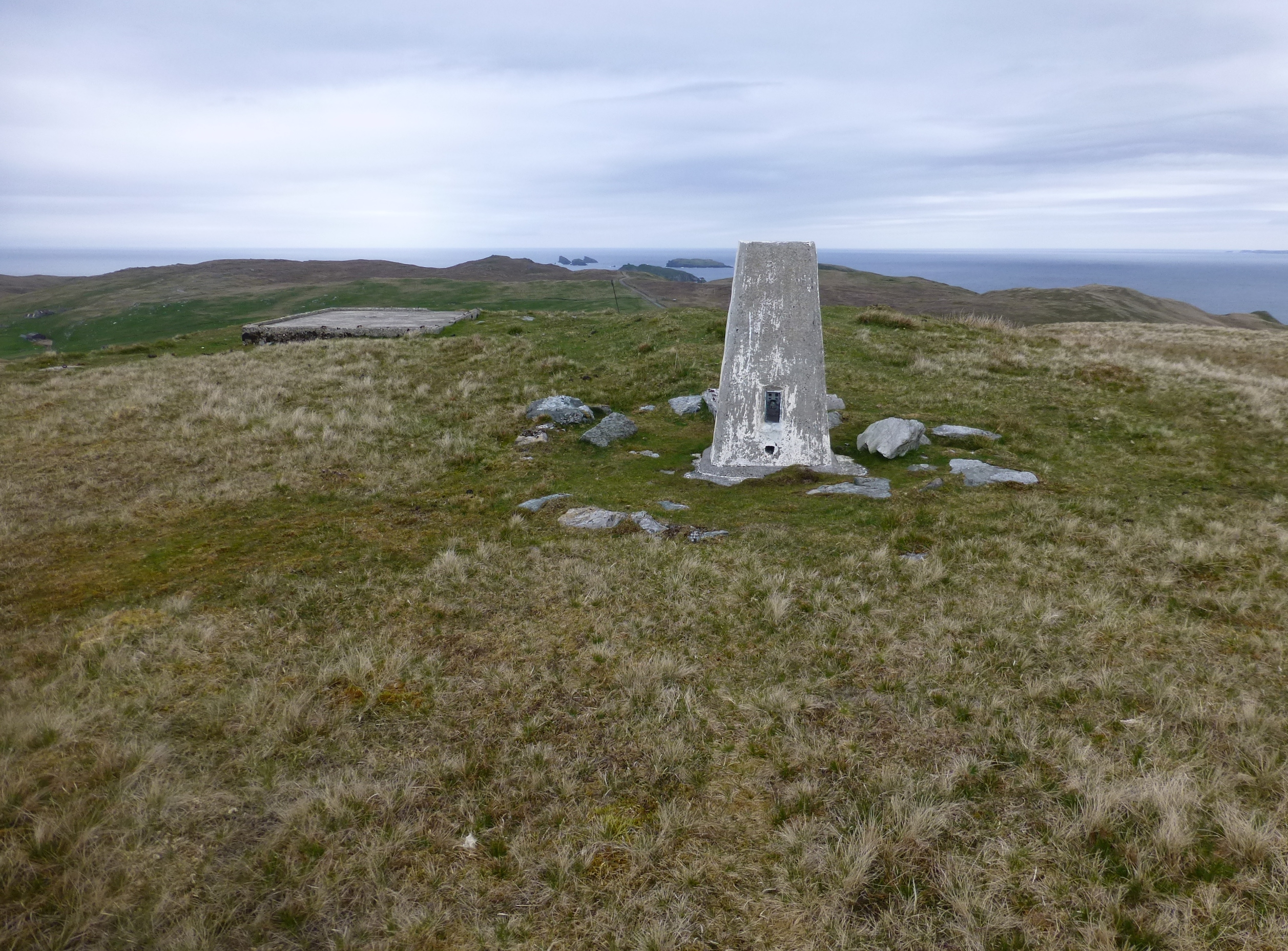 Lanchestoo Trig